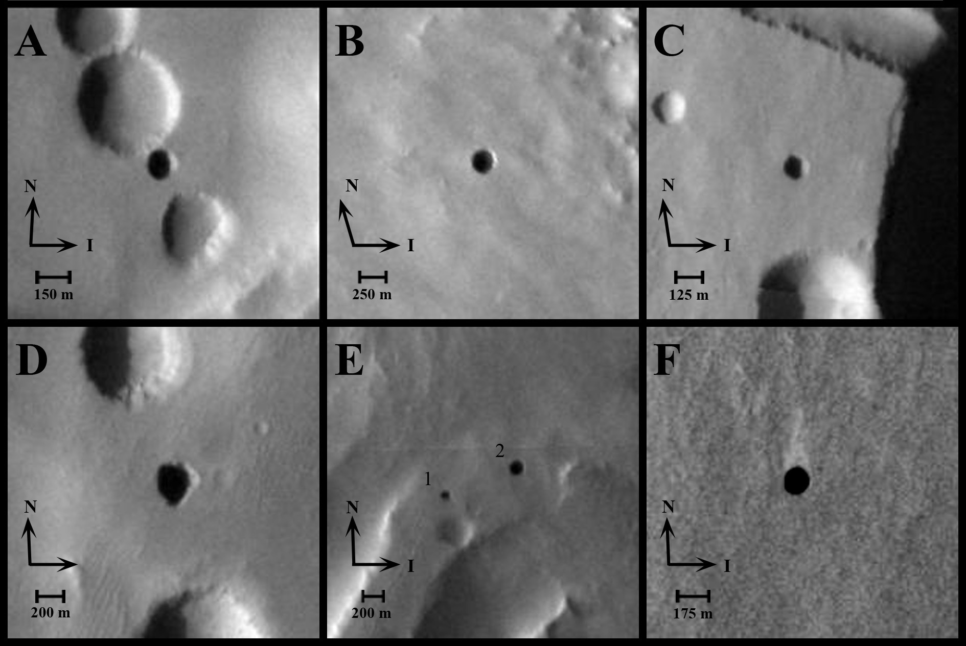 Seven very dark holes on the north slope of a Martian volcano have been proposed as possible cave skylights, based on day-night temperature patterns suggesting they are openings to subsurface spaces. These six excerpts of images taken in visible-wavelength light by the Thermal Emission Imaging System camera on NASA's Mars Odyssey orbiter show the seven openings. Solar illumination comes from the left in each frame. The volcano is Arsia Mons, at 9 degrees south latitude, 239 degrees east longitude. The features have been given informal names to aid comparative discussion. They range in diameter from about 100 meters (328 feet) to about 225 meters (738 feet). The candidate cave skylights are (A) "Dena," (B) "Chloe," (C) "Wendy," (D) "Annie," (E) "Abby" (left) and "Nikki," and (F) "Jeanne." Arrows signify north and the direction of illumination.